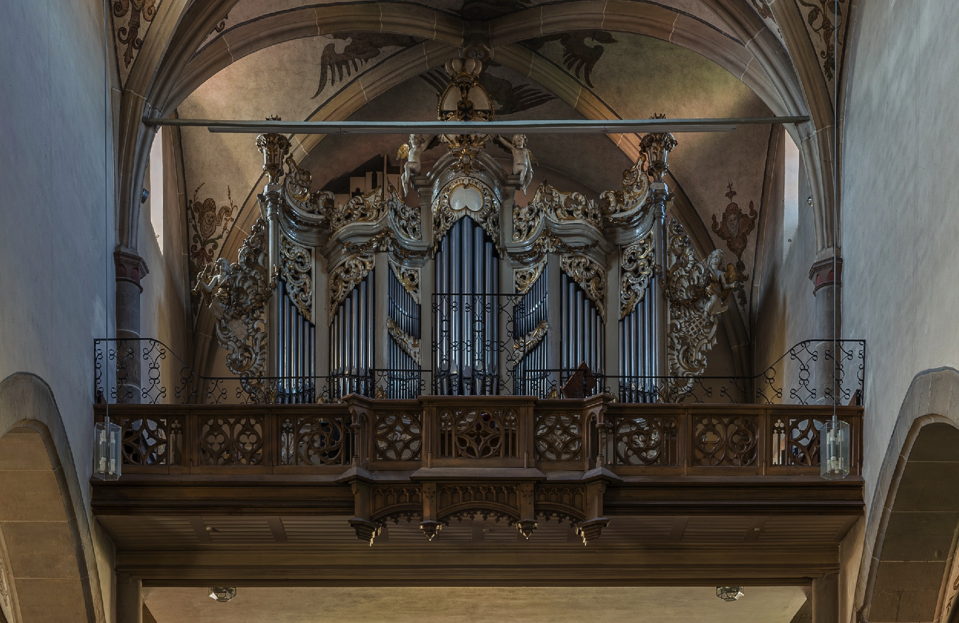 Orgel